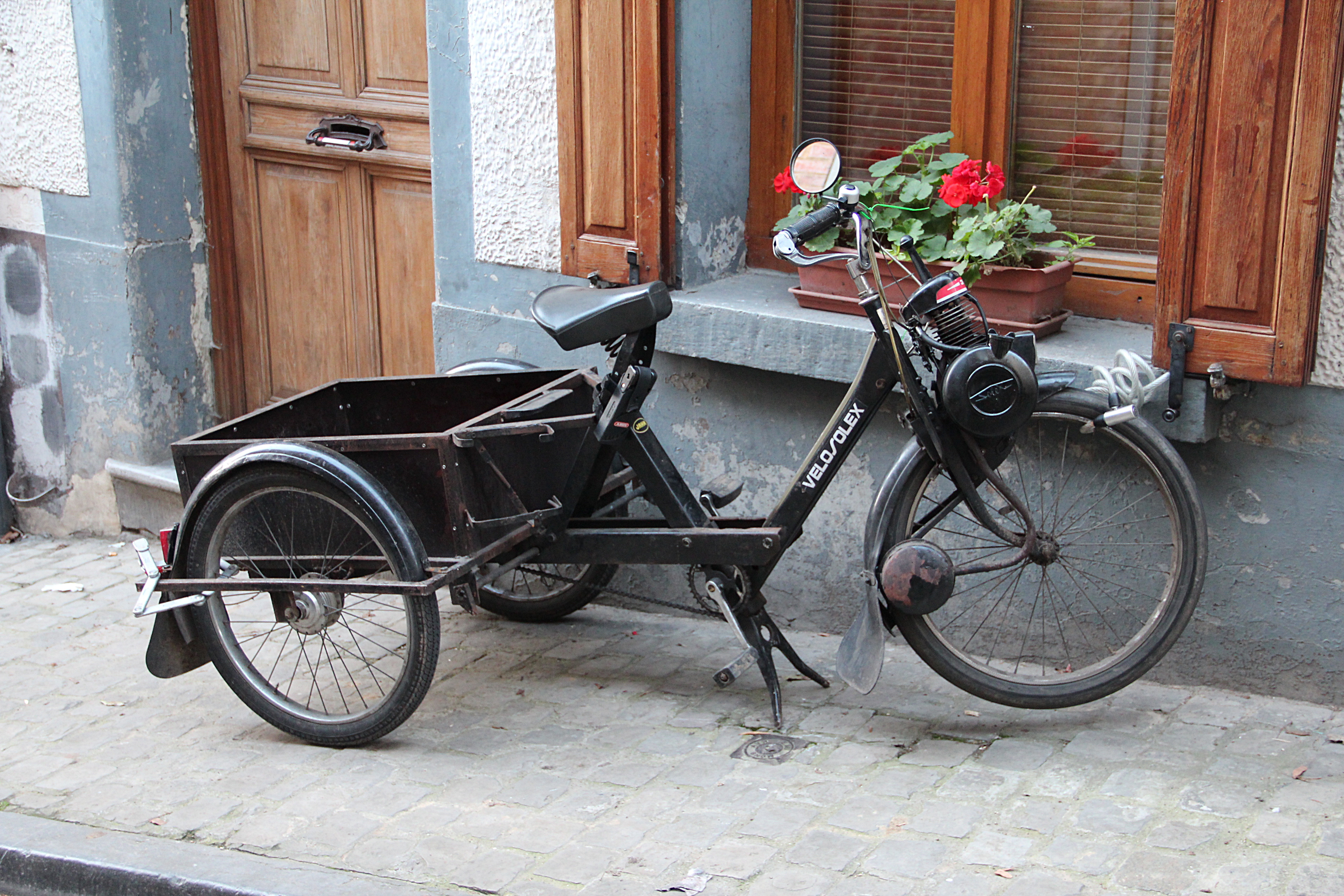 Motorized tricycle VéloSolex.